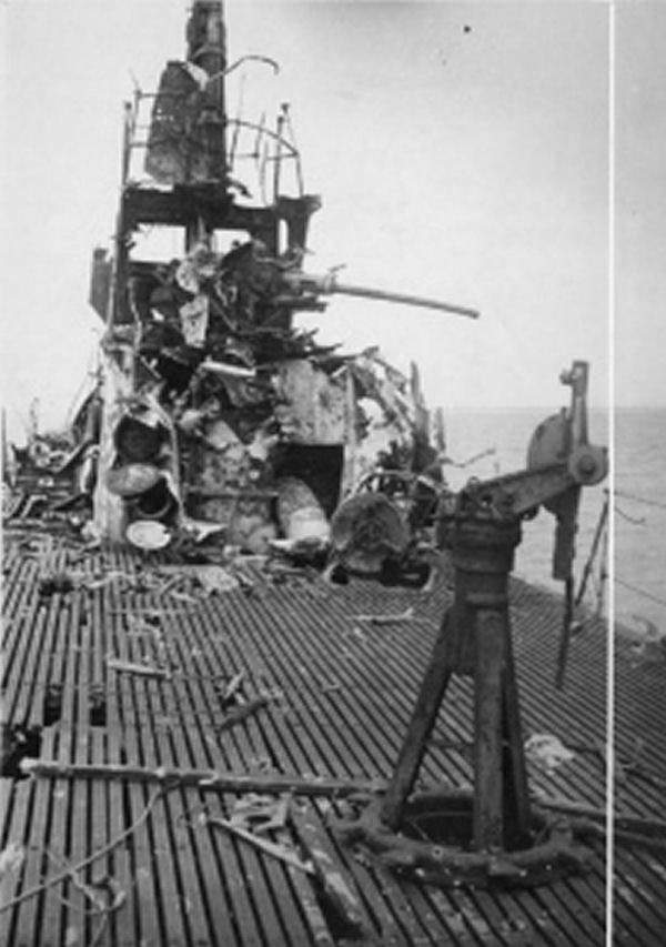 General view of the destruction wrought on the deck of the Darter (SS-227) after she was grounded and destroyed by shellfire on Bombay Shoal off Palawan on 4th patrol, 24 October 1944.